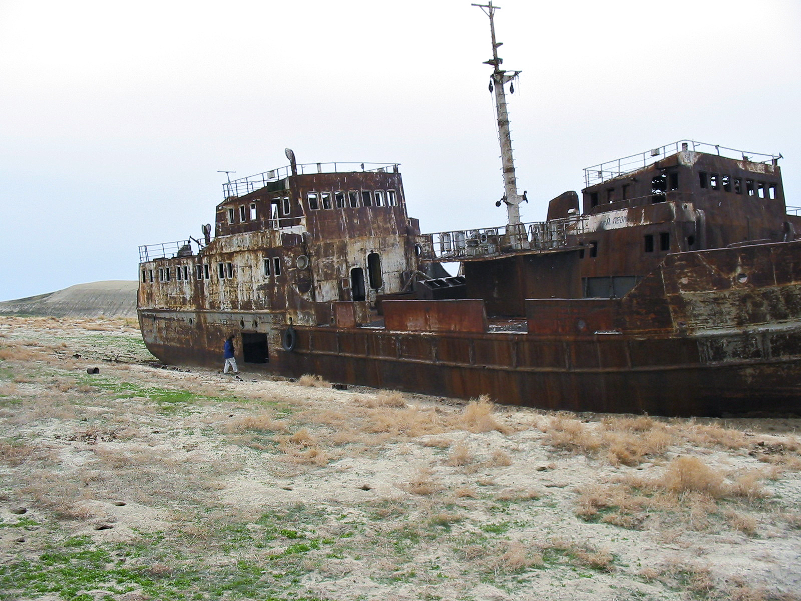 Two abandoned ships in the former Aral Sea, near Aral, Kazakhstan.